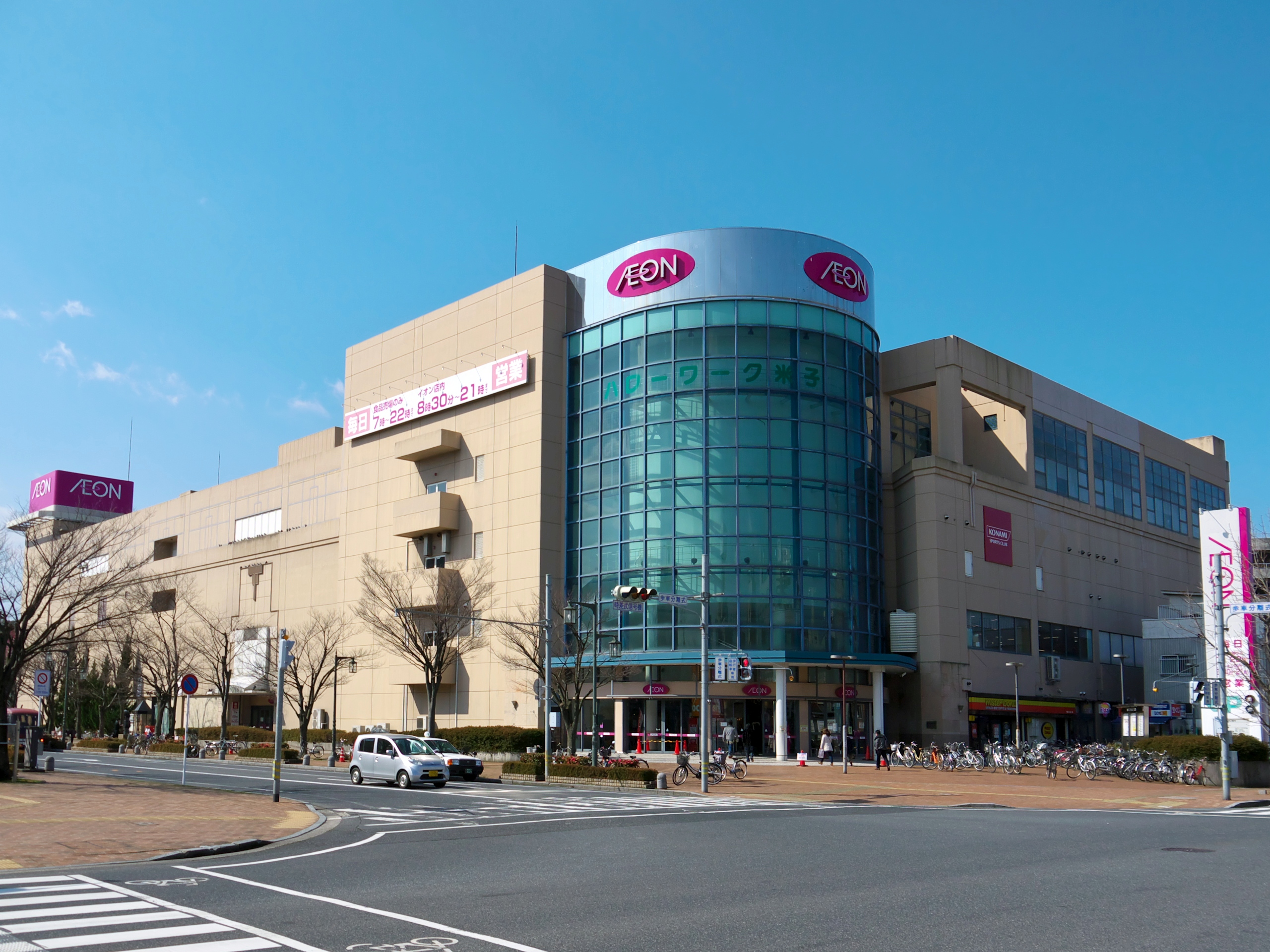 AEON Yonago Ekimae Shopping Center, Yonago, Tottori prefecture